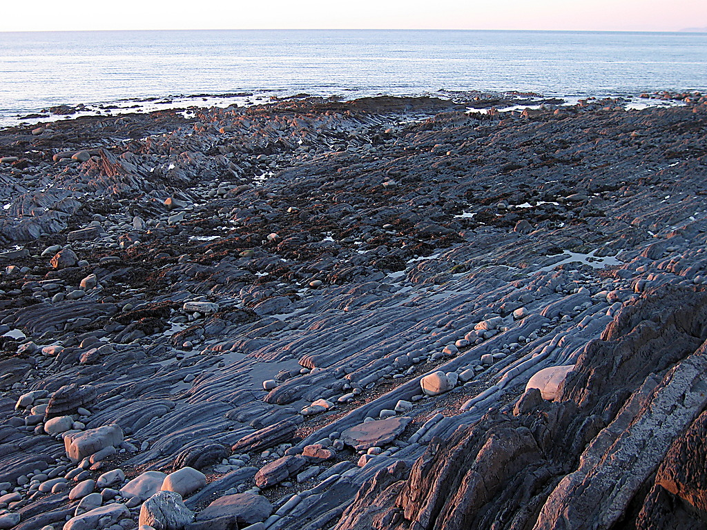 Wave-cut platform below Allt Wen Alternating hard and soft layers have been folded up vertically and eroded by the tides, resulting in a regular ripple pattern at the surface. Allt Wen, the northern end of the coastal cliff south of Aberystwyth, is a remarkable geological site. A number of micro-folds only a few metres across with nearly parallel vertical limbs have been exposed on a wave-cut platform at the base of the cliff. The exact sequence of events that have taken place here is still debated, but it is thought that during the Caledonian orogeny 400Ma ago, freshly deposited layers of sediment became pressurised and folded before they were fully lithified and thus more deformable. There are also quartz veins parallel with the bedding in some places. It is thought that they were pressed into the fresh sediment before the folding took place. For more details, see the Geological Conservation Review's site report .